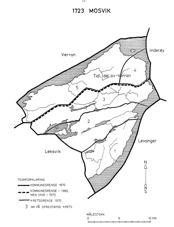 Administrative subdivisions of the municipality of Mosvik, Norway for census purposes